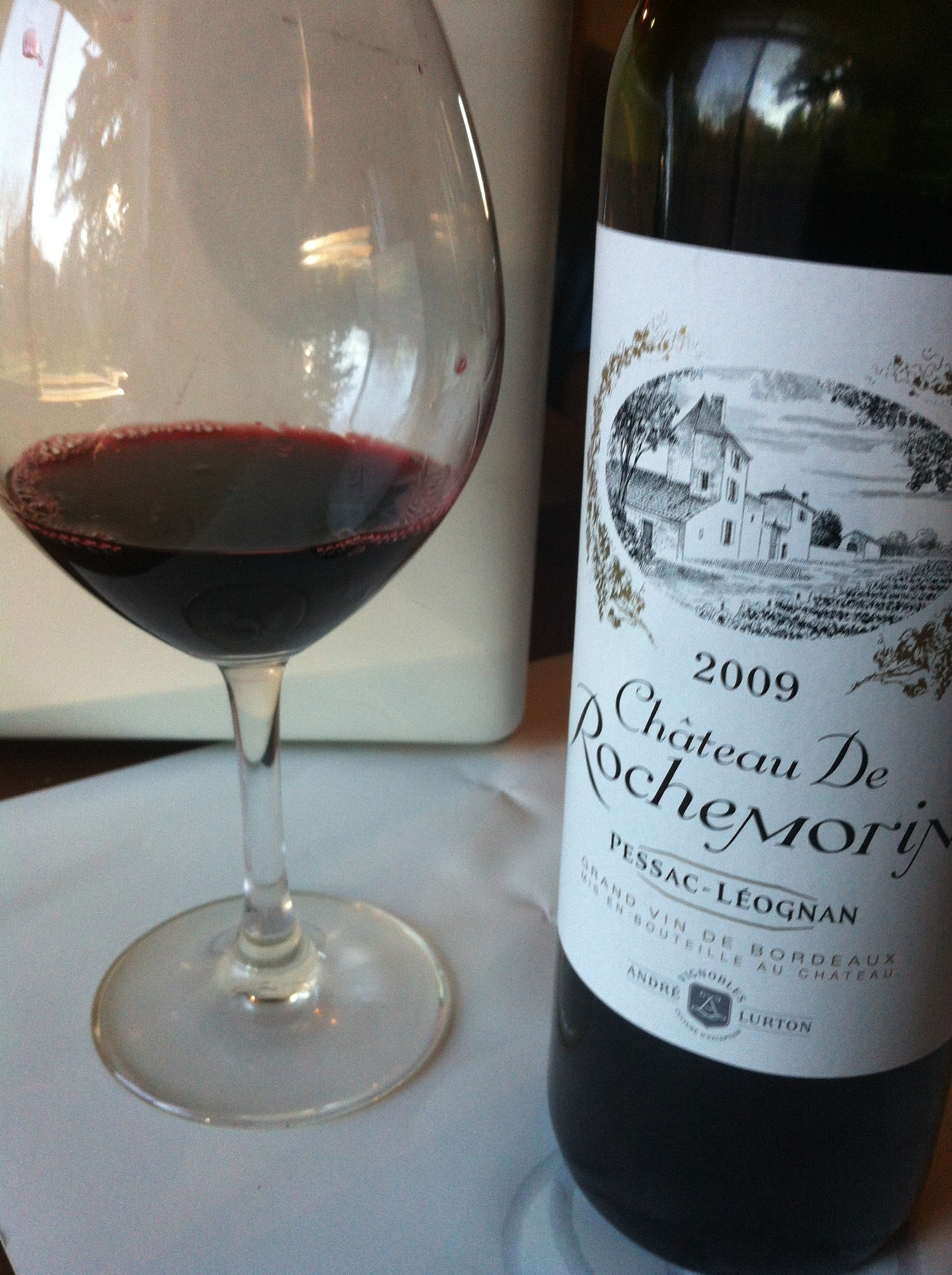 French Bordeaux from the left bank Pessac-Leognan region of the Graves. Made by Andre Lurton